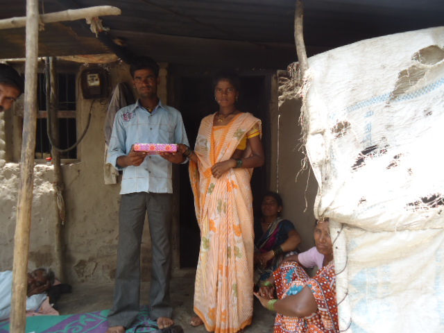 नव दाम्पत्य फोटो